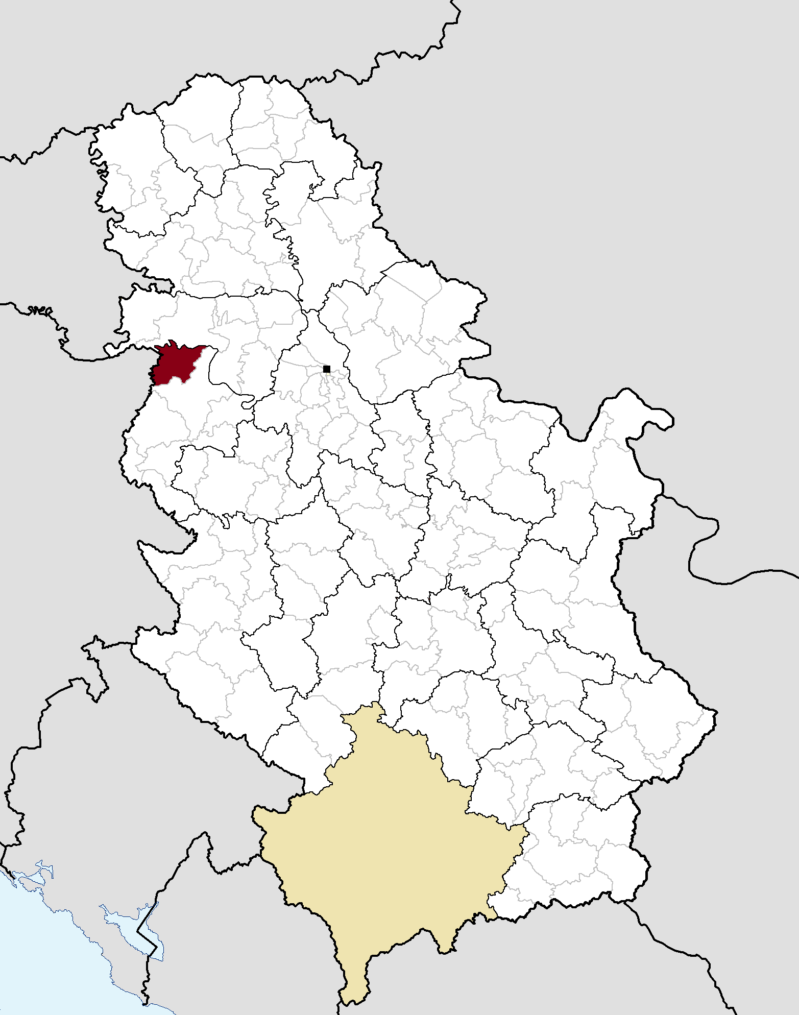 Municipal location in Serbia